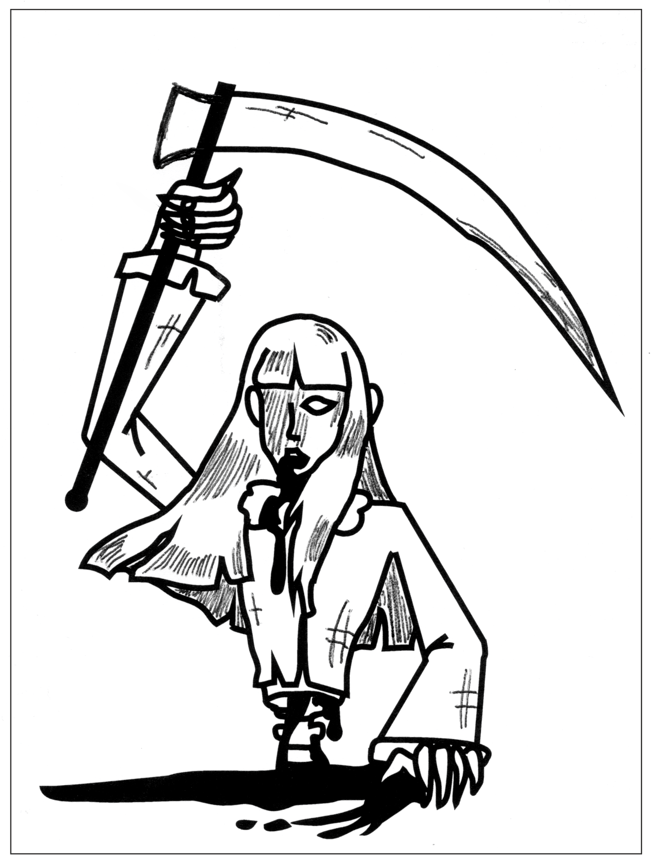 Artistic representation of Teketeke (Japanese: テケテケ), a fictional being from a Japanese urban legend.